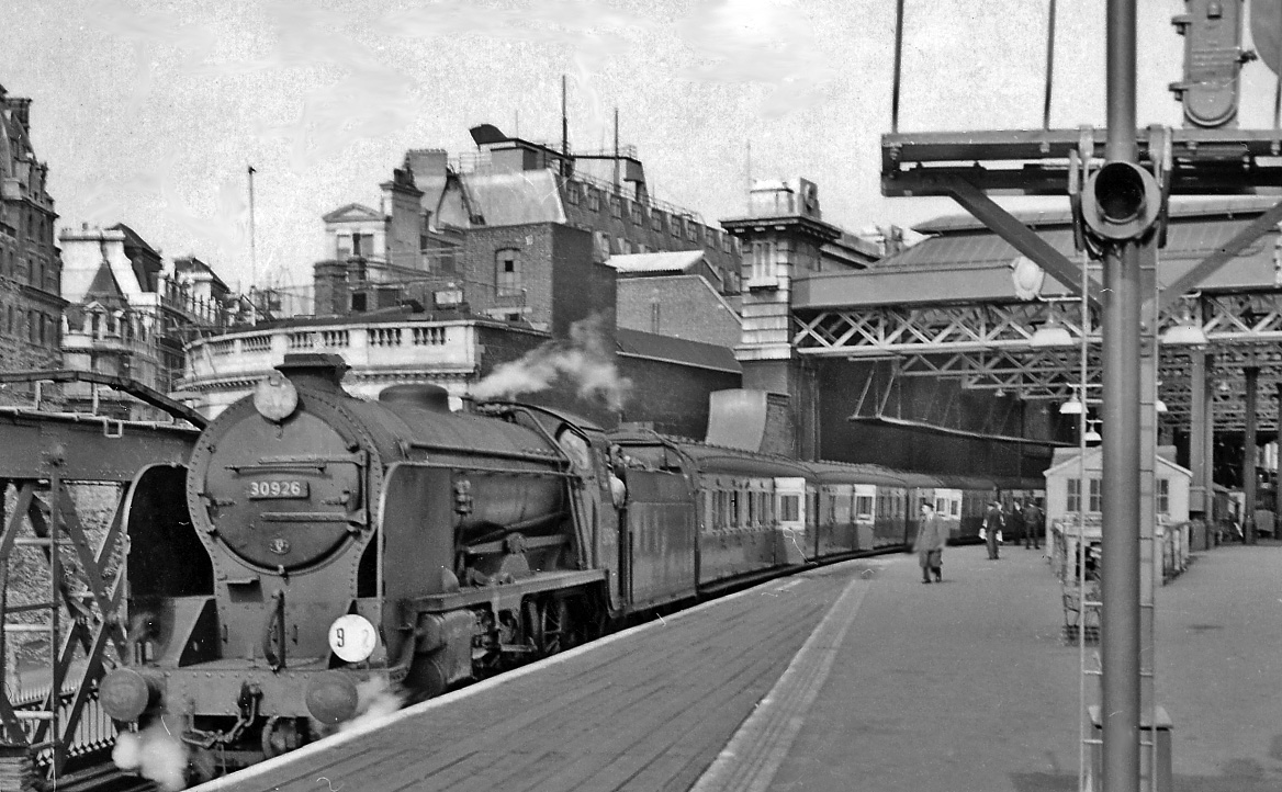 Hastings express at Charing Cross Station. View towards the buffer-stops on Platform 6: ex-SE&CR main London terminus. The 10.25 express to Hastings is headed by Maunsell V class 'Schools' 4-4-0 No. 30926 'Repton'. This locomotive was built 5/1934 and withdrawn in 12/1962, but preserved and is now on the North Yorkshire Moors Railway.